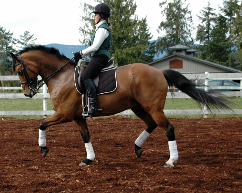 Canadian paralympic rider, Karen Brain, schooling her horse VDL Odette.